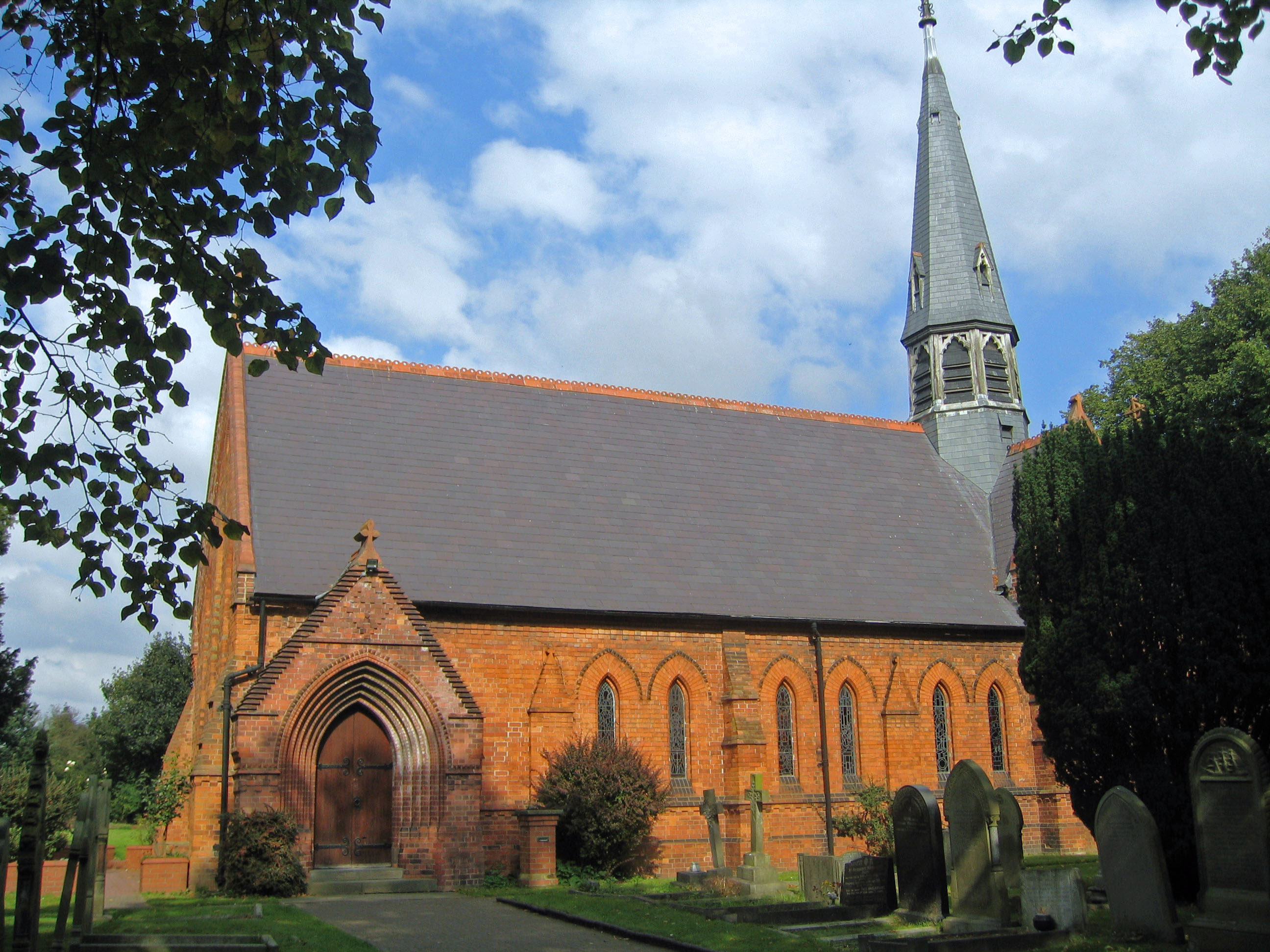 St Michael's and All Angels parish church, Little Leigh, Cheshire, seen from the south